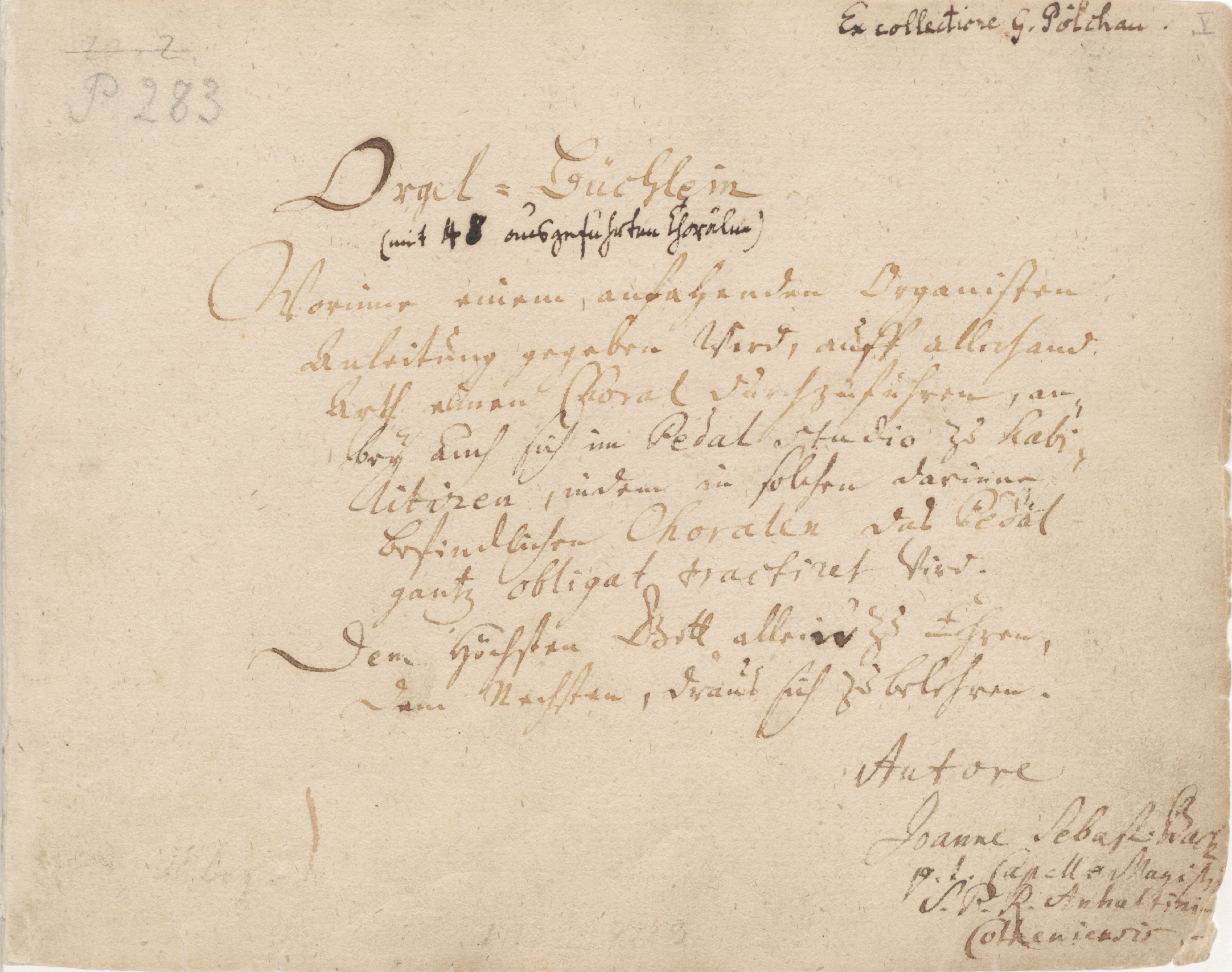 Title page of Johann Sebastian Bach's Orgelbüchlein (hence the PD indication). Originally found here: [1].